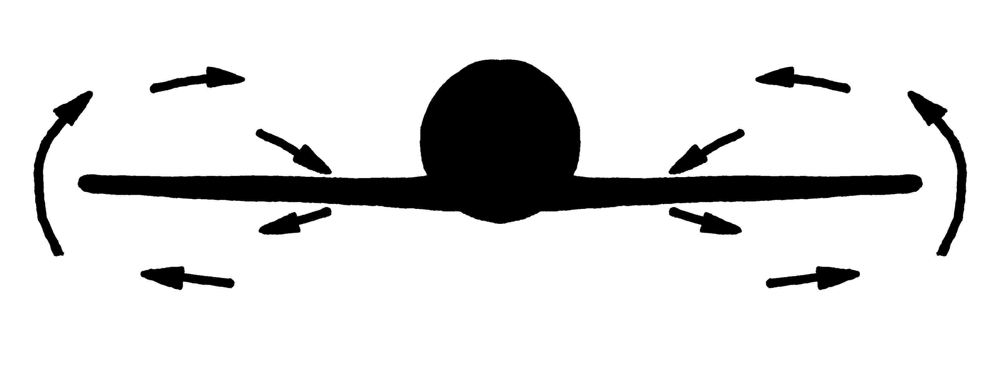 Drawing of front view of an airplane wing-body combination showing velocity vectors in a cross-flow plane.